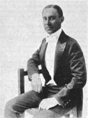 Charles "Chick" Sale circa 1919